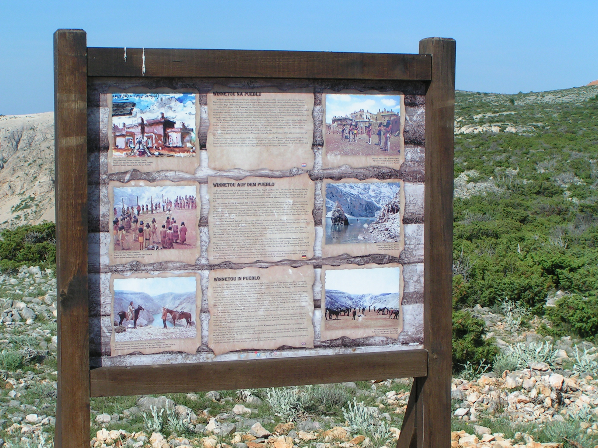 Plate to commemorate the filming Winnetou in Canyon Zrmanja River.